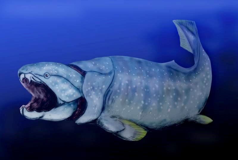 Dunkleosteus, a placoderm from the Devonian, pencil drawing, digital coloring